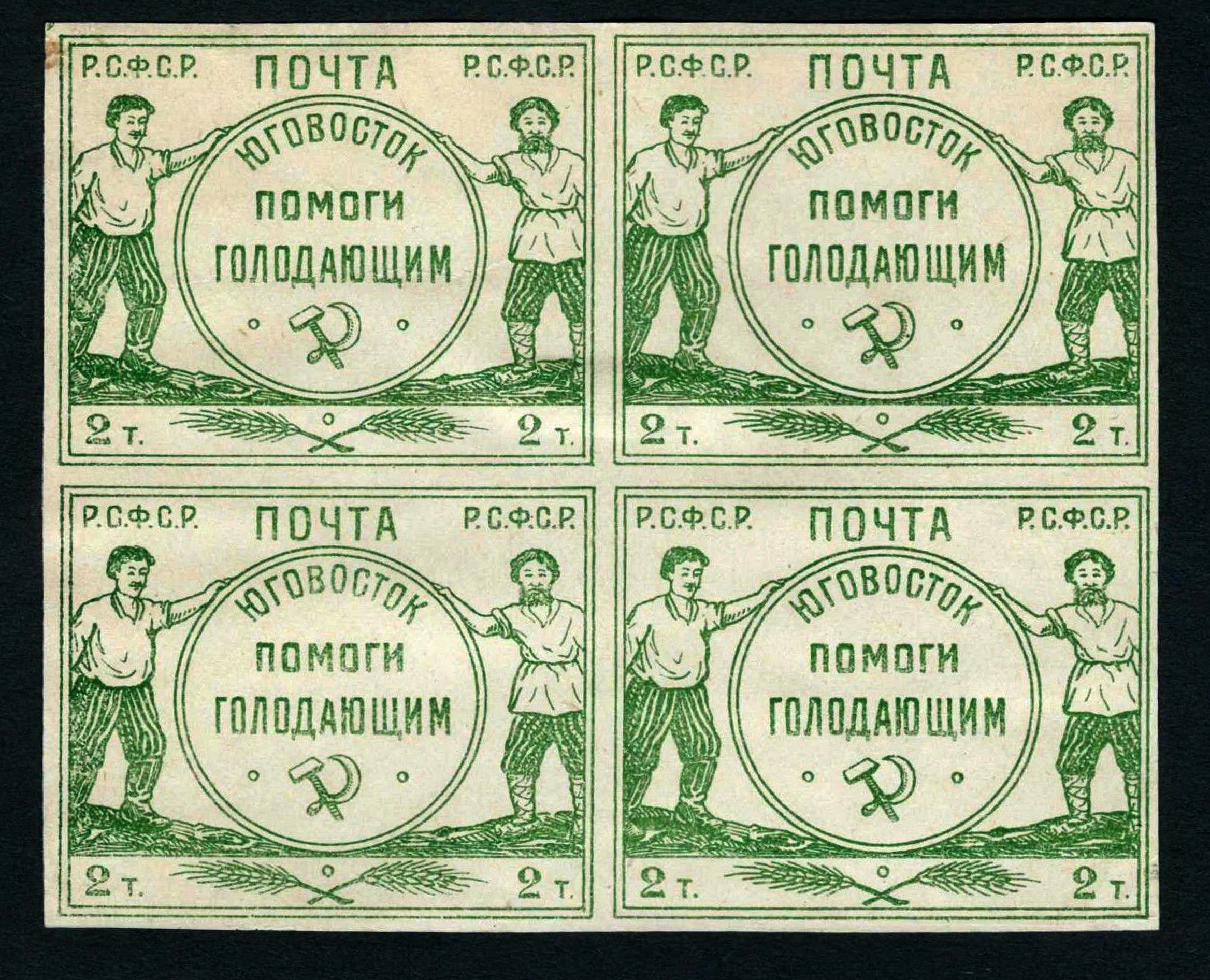 Obligatory Tax. Rostov-on-Don issue. Famine Relief. Worker and peasant. Block of 4 stamps